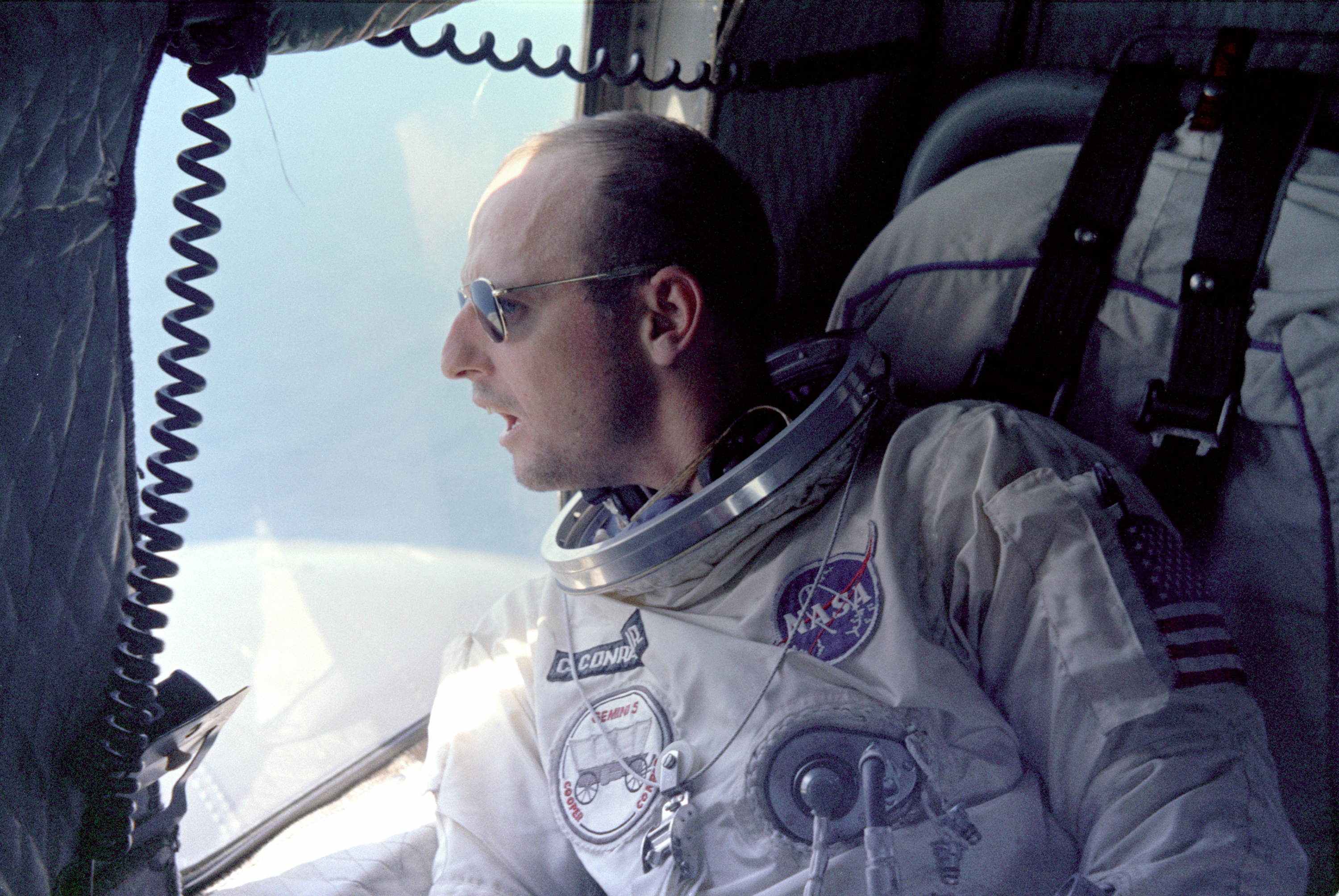 Charles "Pete" Conrad Jr. looks out of the helicopter window after recovery from his spacecraft after the Gemini 5 splashdown. Image # : S65-46622